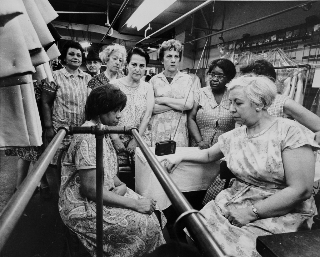 Garment workers at the Abe Schrader Shop listen to the funeral service for Martin Luther King, Jr. on a portable radio. April 8, 1968